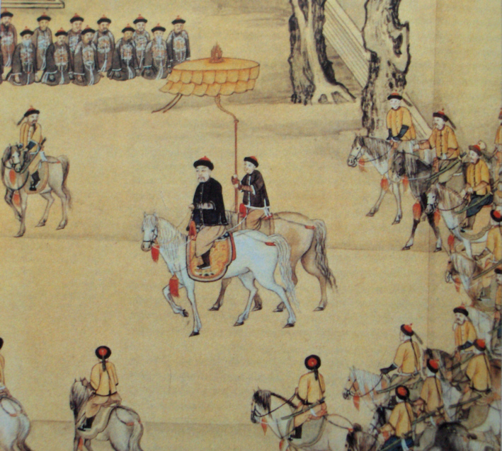 Qianlong on his southern inspection tour